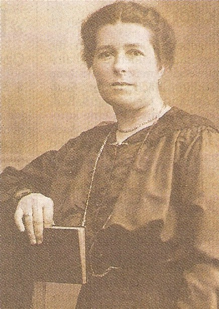 Anna Del Fabbro (1876-1959), nee Batta-Ermacora, italian wife of Valentino Del Fabbro (1866-1915), entrepeneur in Bad Kissingen (Germany)